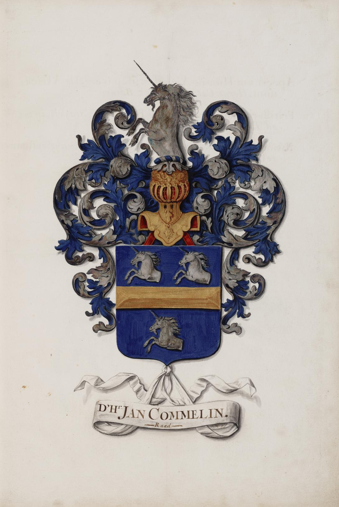 Heraldic arms of Jan Commelijn